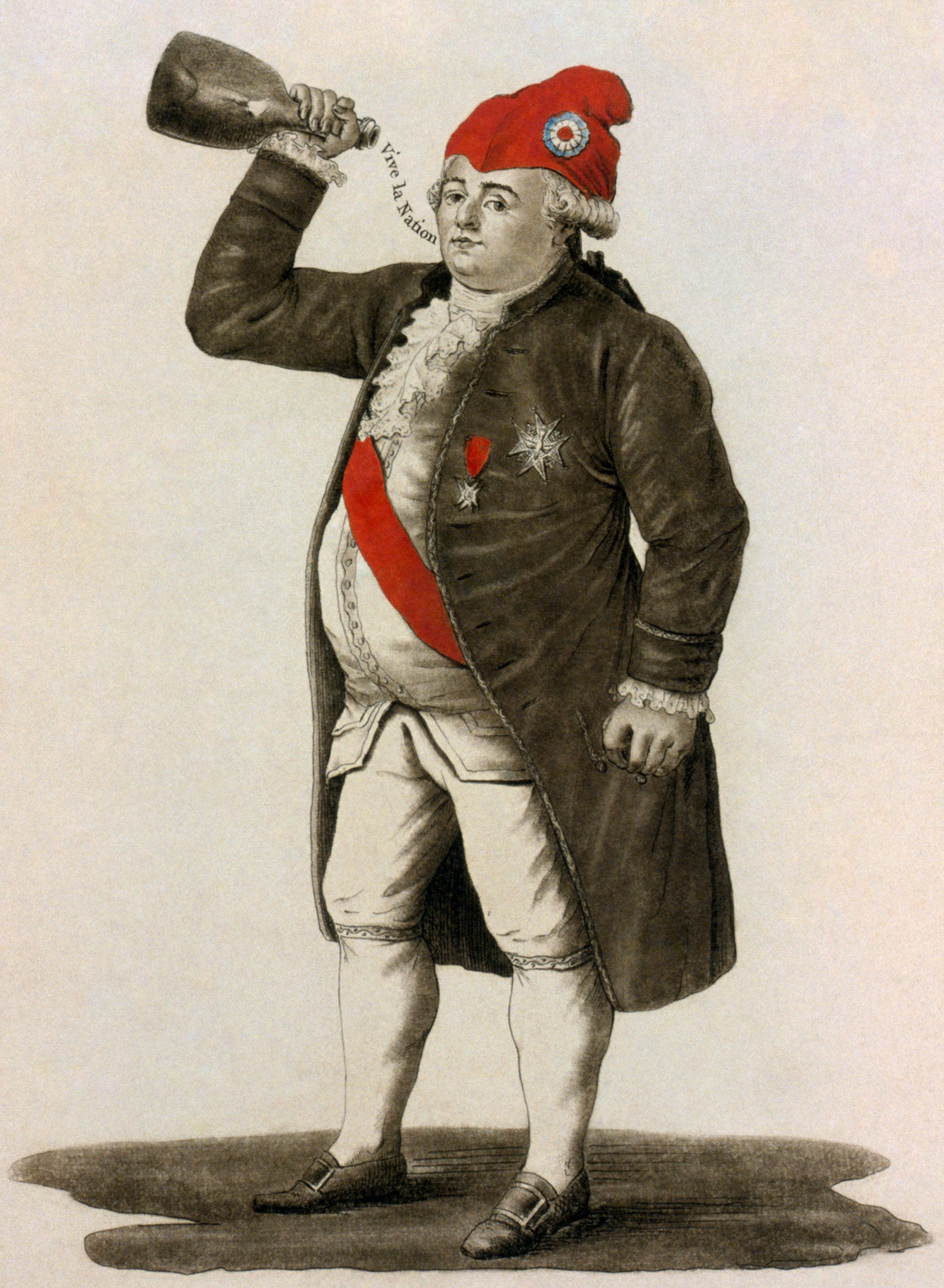 "Long live the nation" (from bottle to mouth) Below: Louis XVI, having put on the Phrygian cap, cried 'long live the nation'. He drank to the health of the sans-culottes and affected a show of great calm. He spoke high-sounding words about how he never feared the law, that he had never feared to be in the midst of the people; finally he pretended to play a personal part in the insurrection of June 20. Well! The same Louis XVI has bravely waited until his fellow citizens return to their hearths to wage a secret war and extract his revenge.